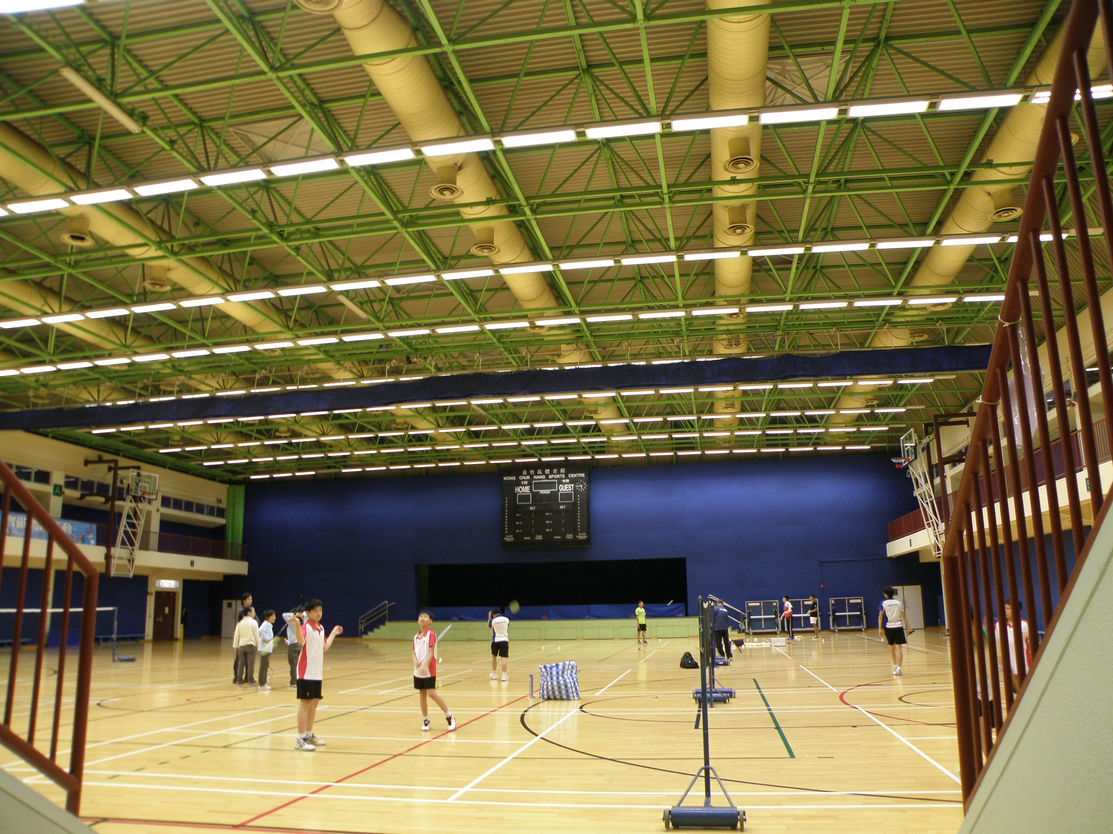 Wong Chuk Hang Sports Centre in Southern District, Hong Kong.